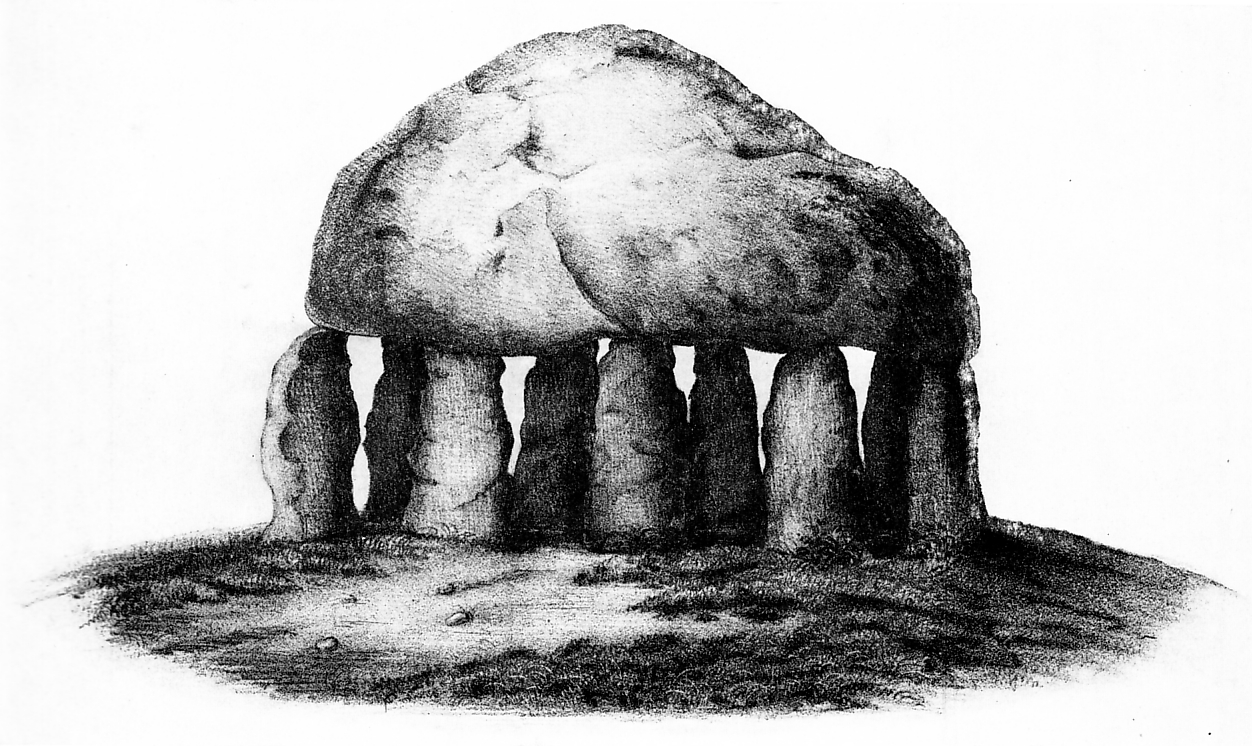 Megalithic Tomb Plaaz (Sprockhoff-No. 373)